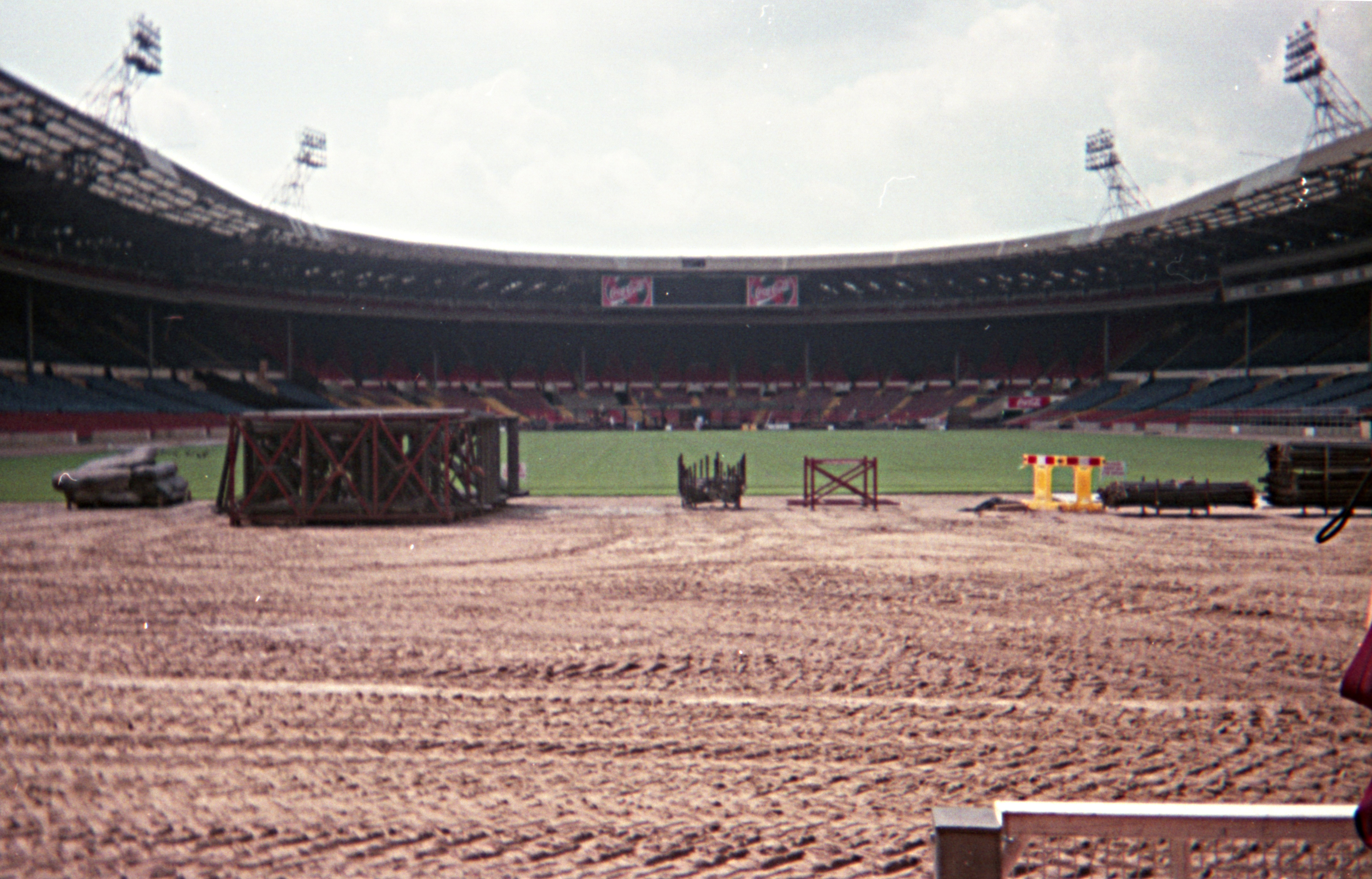 Photo of the inside of the old Wembley Stadium scanned from film